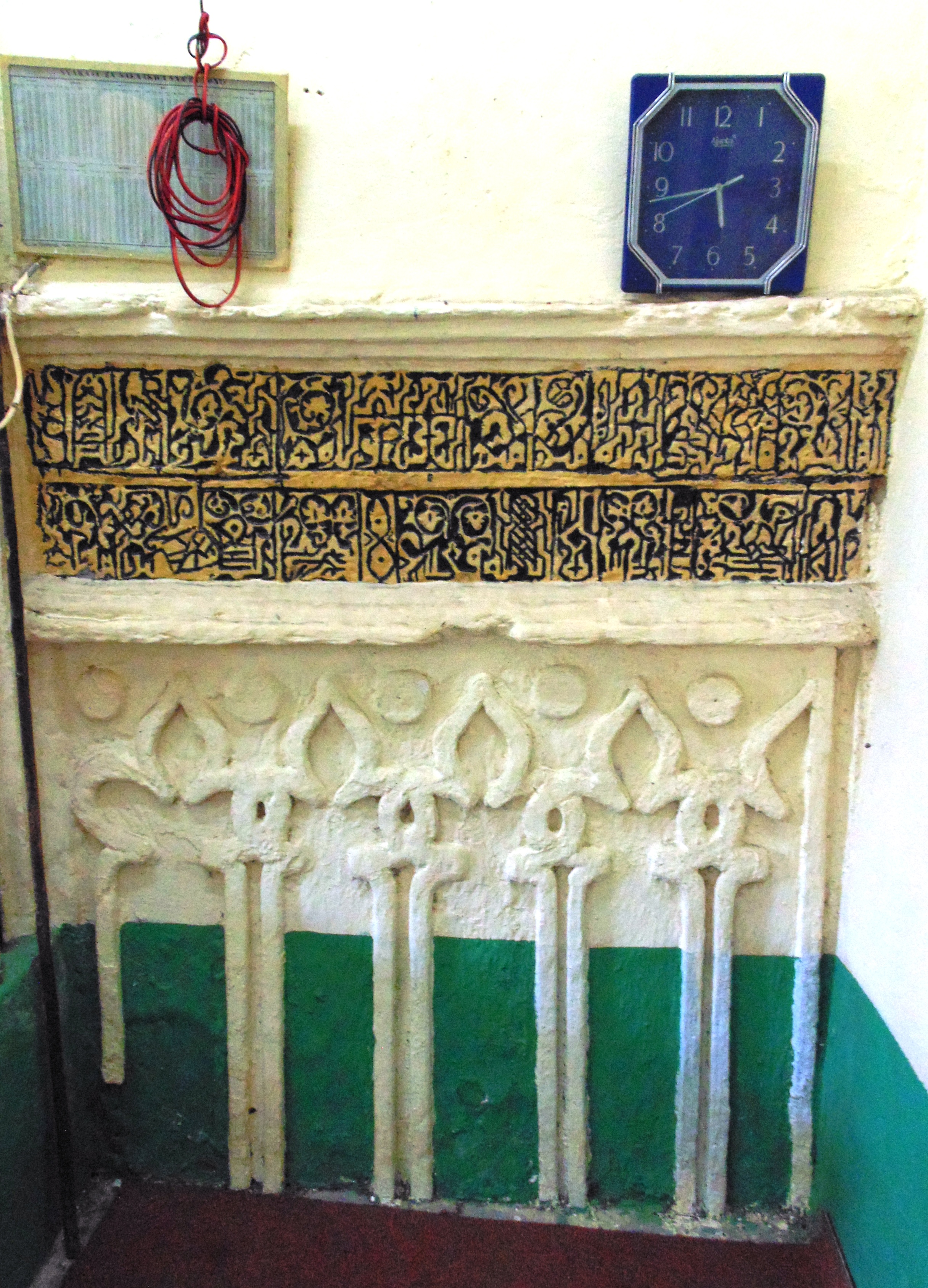 Kizimkazi Mosque